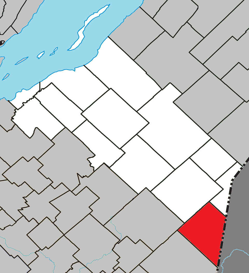 Location of Saint-Just-de-Bretenières, Quebec within Montmagny Regional County Municipality.